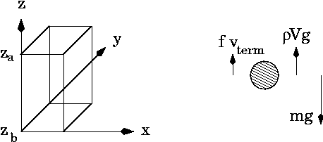 Schematic of the Mason-Weaver cell, made with Xfig.